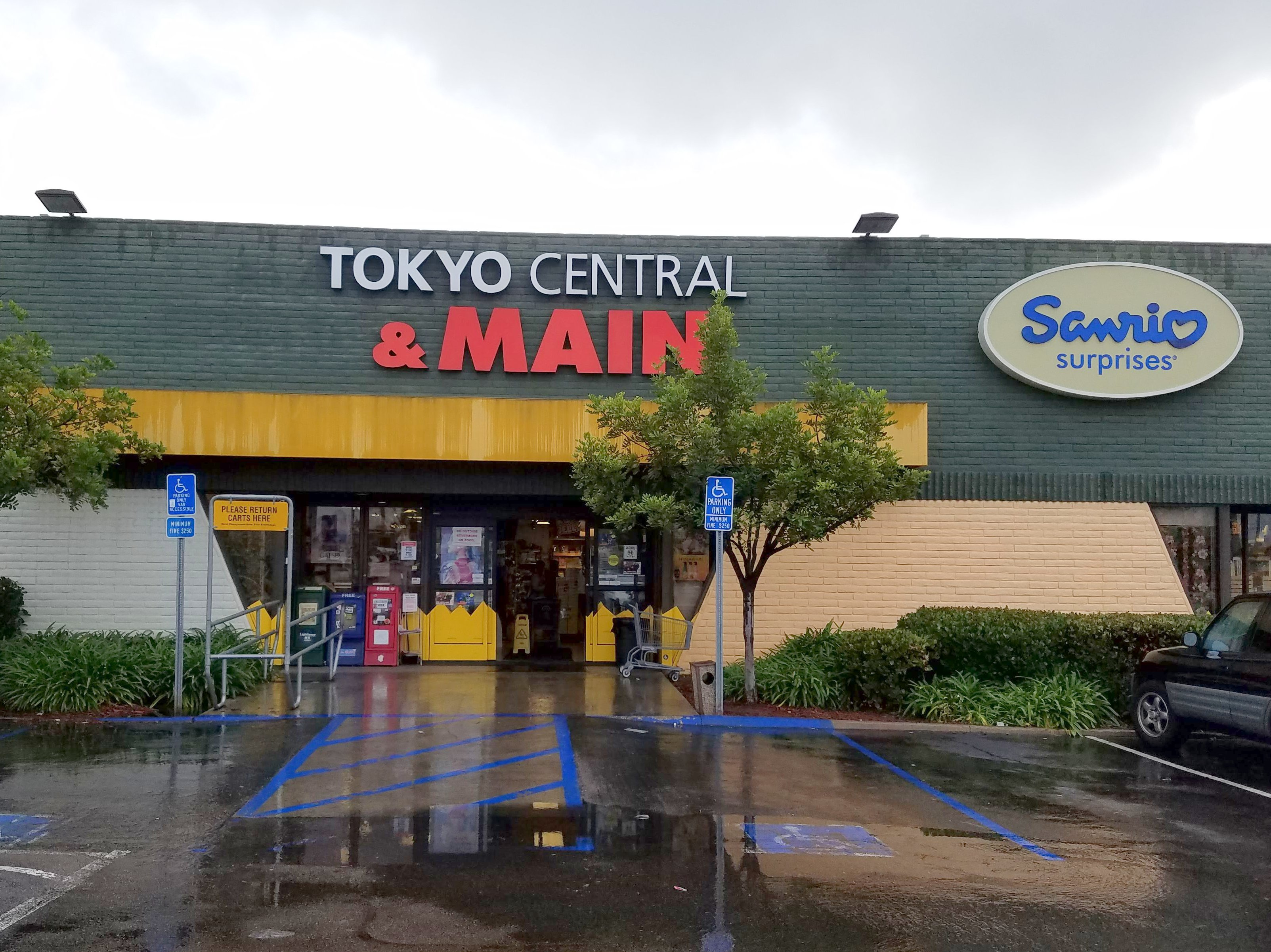 Tokyo Central & Main storefront in San Diego in December, 2019